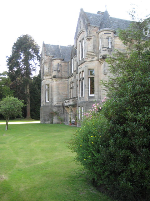 Giffen House, near Dalry, Ayrshire Giffen House is a Victorian mansion in the Scottish Baronial style. For an interesting estate agent's description of the property in 1923 go to and scroll down. There is a better photograph on the ScottishPlaces website